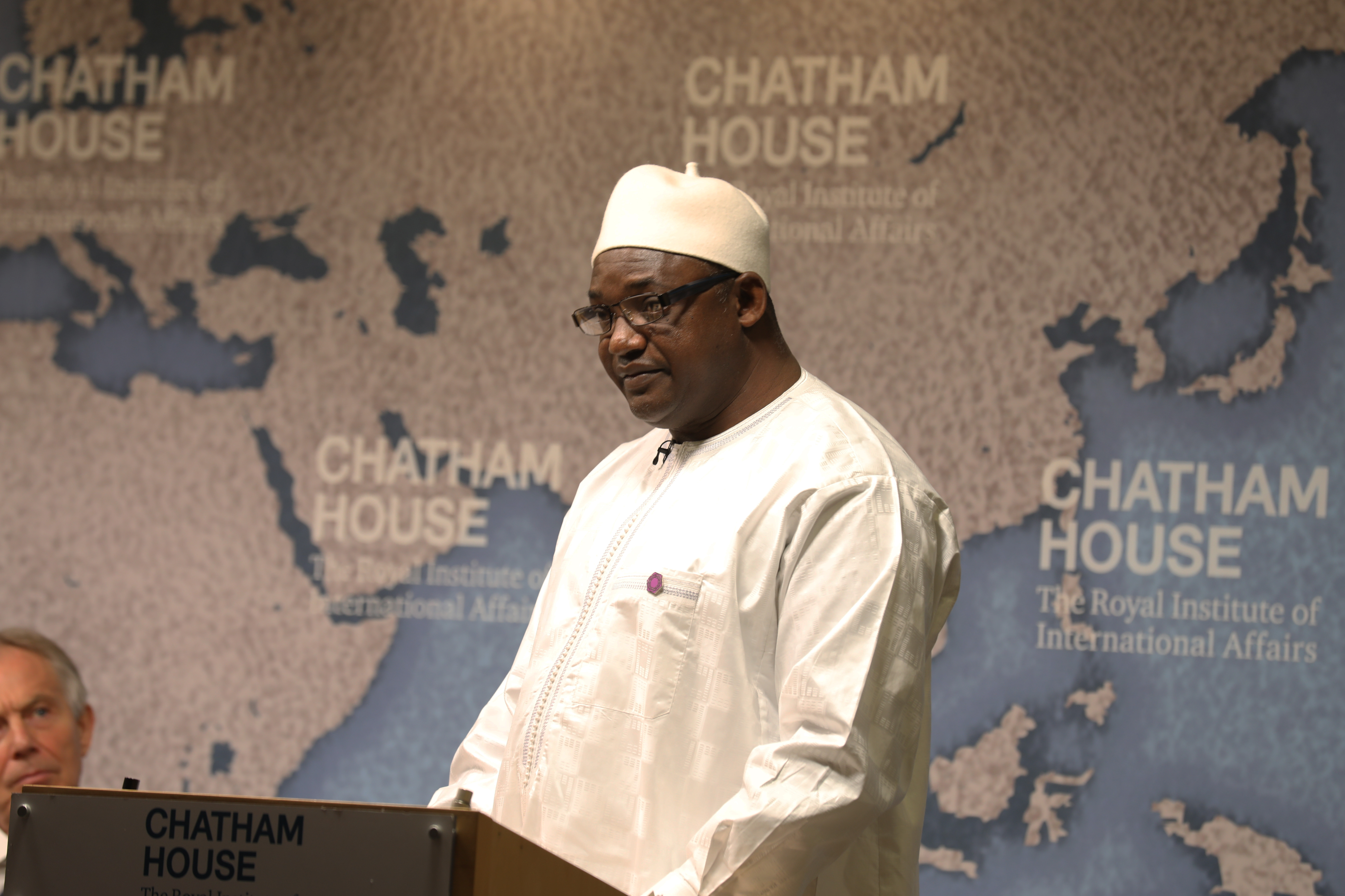 HE Adama Barrow, President, Republic of the Gambia. Shaping The Gambia's Future: How to Build a Path to Sustainable Progress.